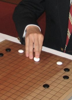 Go instruction, an edit of Image:ProfessionalGoseminar.jpg